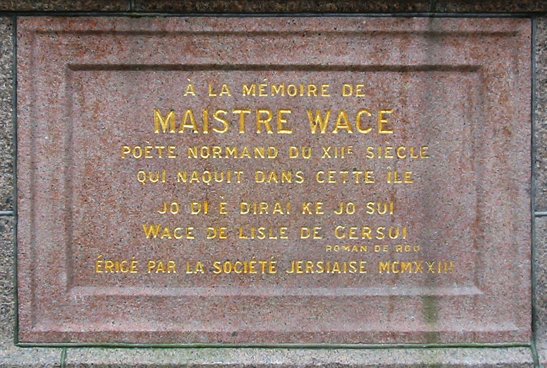 Monument to Wace in the Royal Square, Saint Helier, Jersey Image created by User:Man vyi on 1st May 2005